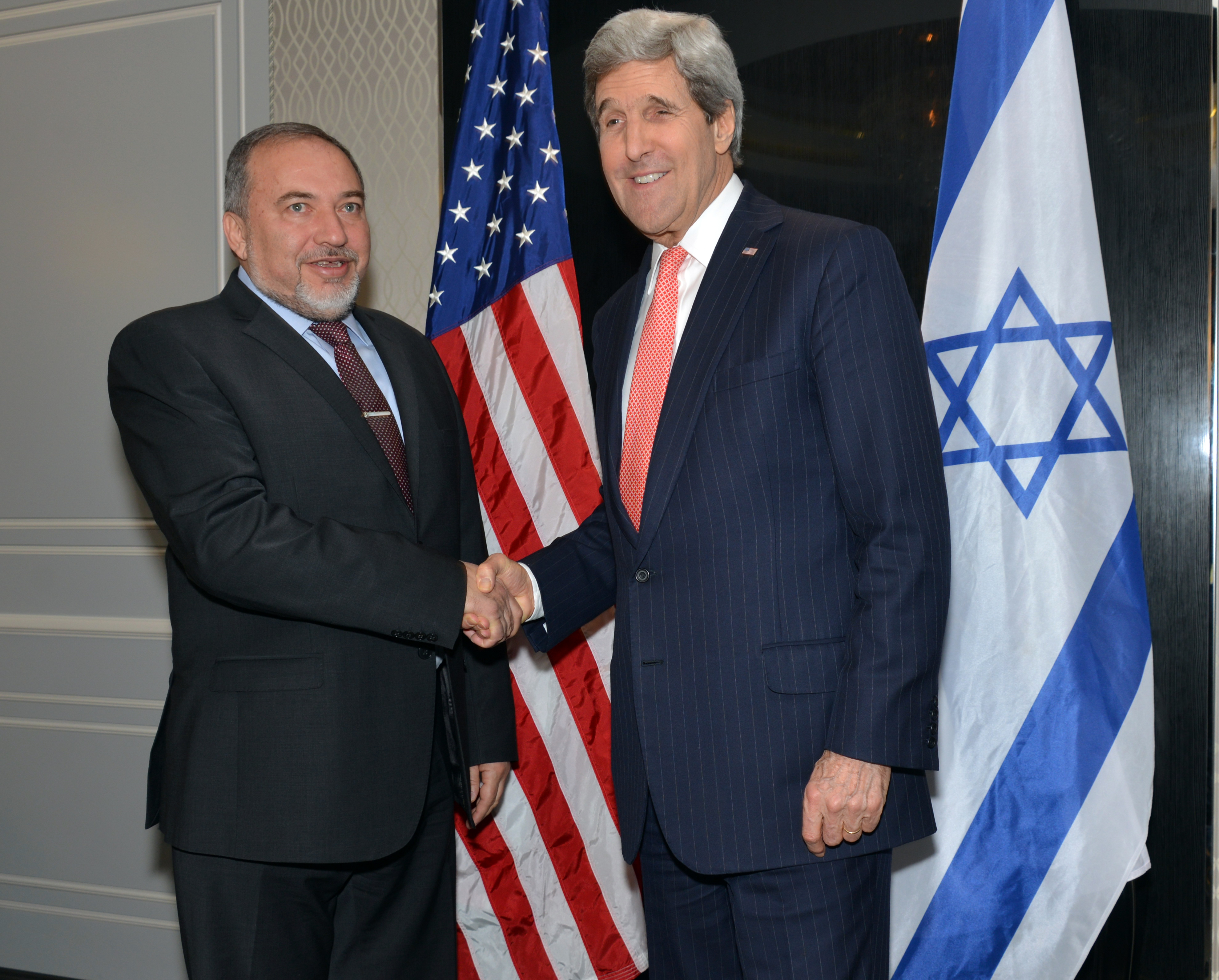 U.S. Secretary of State John Kerry meets with Israeli Foreign Minister Avigdor Lieberman on the sidelines of meetings on Libya and Ukraine in Rome, Italy, on March 6, 2014. [State Department photo/ Public Domain]